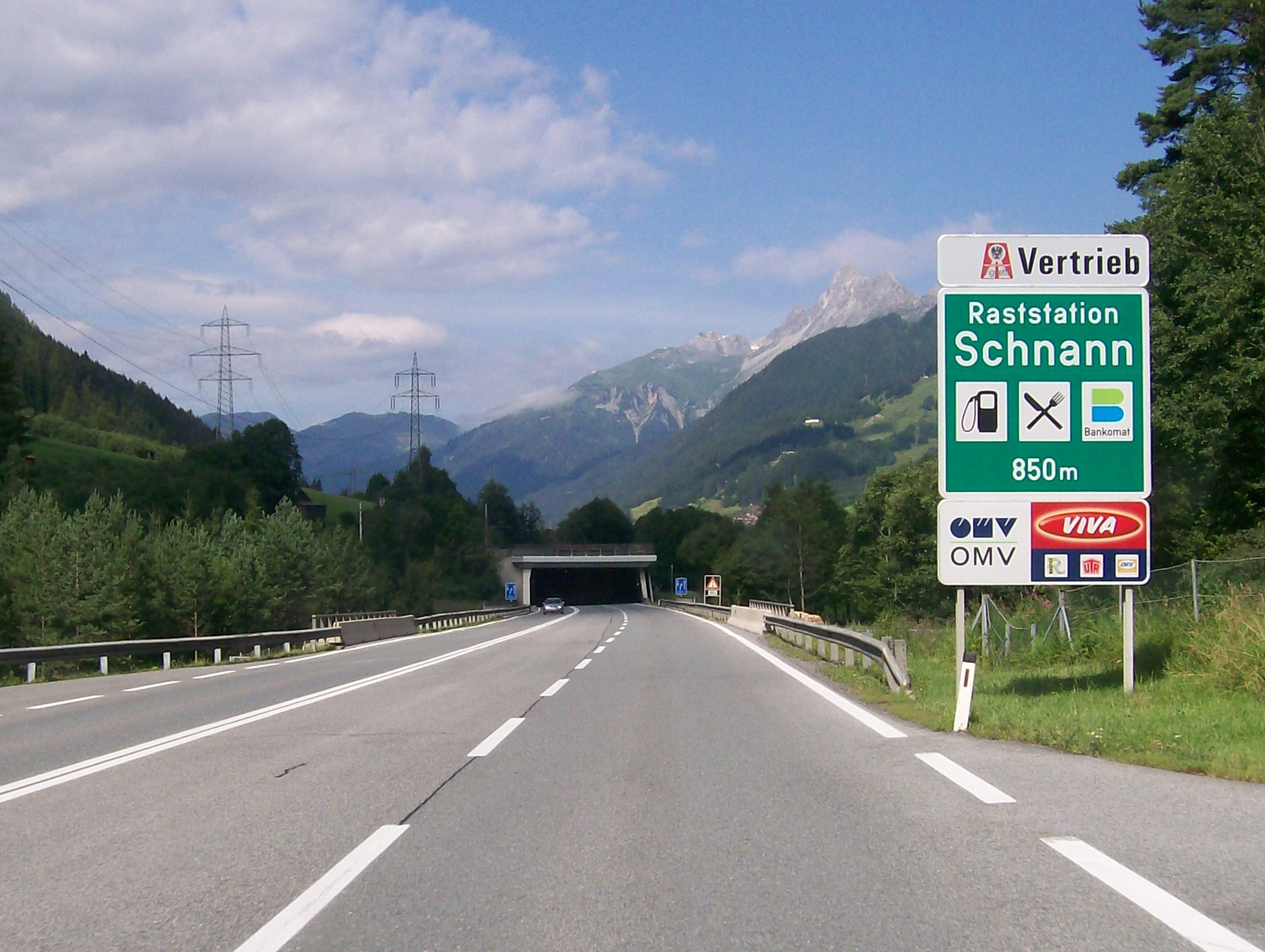 Arlberg Schnellstrasse (S16) near Schnann, Austria